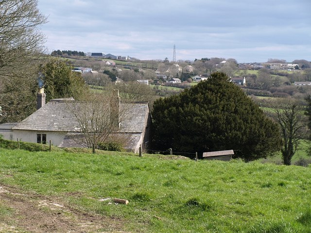 View at Hendra Hendra House seen from the lane from Trewen, with Trevia across the valley of the River Allen.